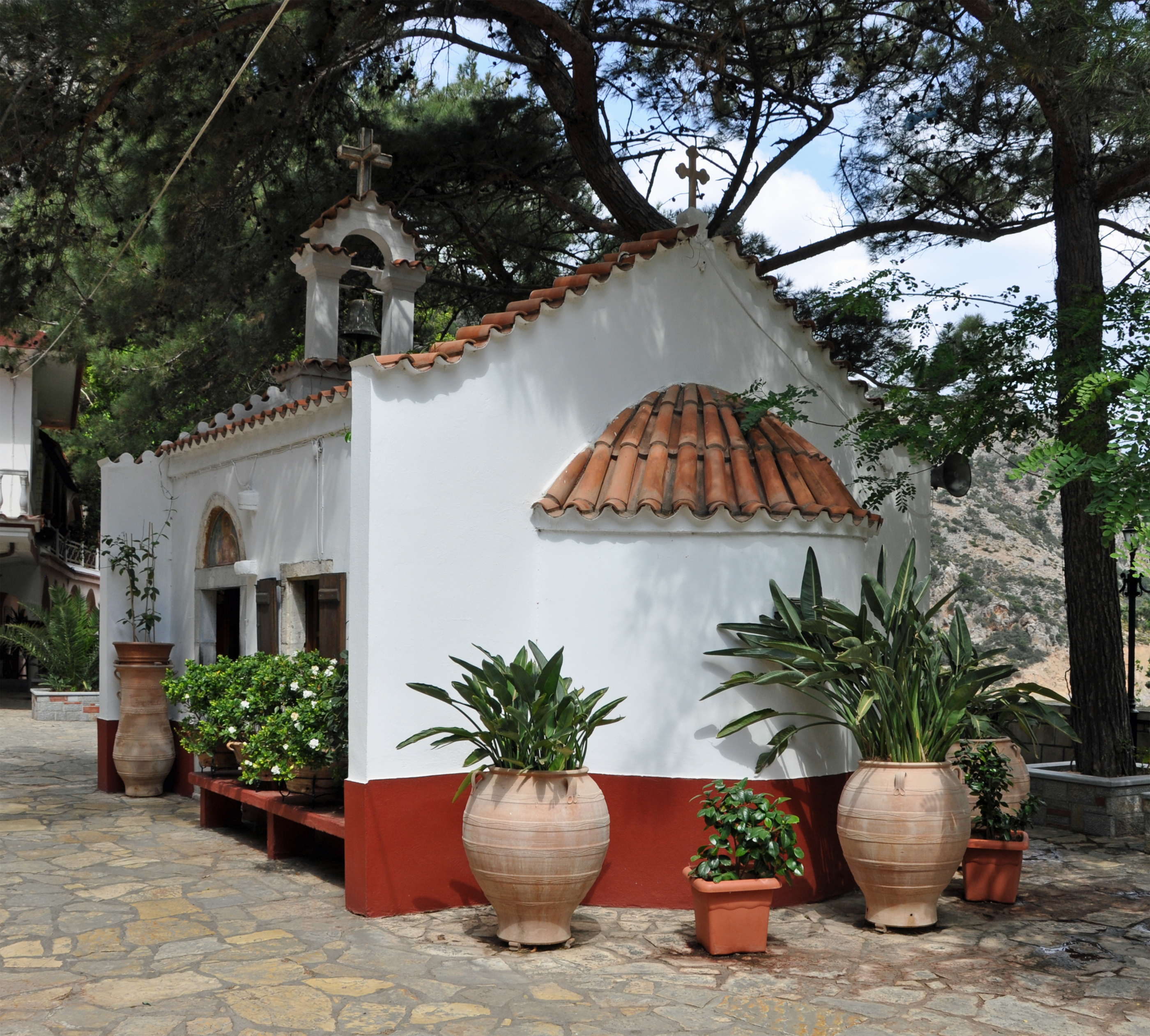 Monastery of St George of Selinari (Crete, Greece): the old church